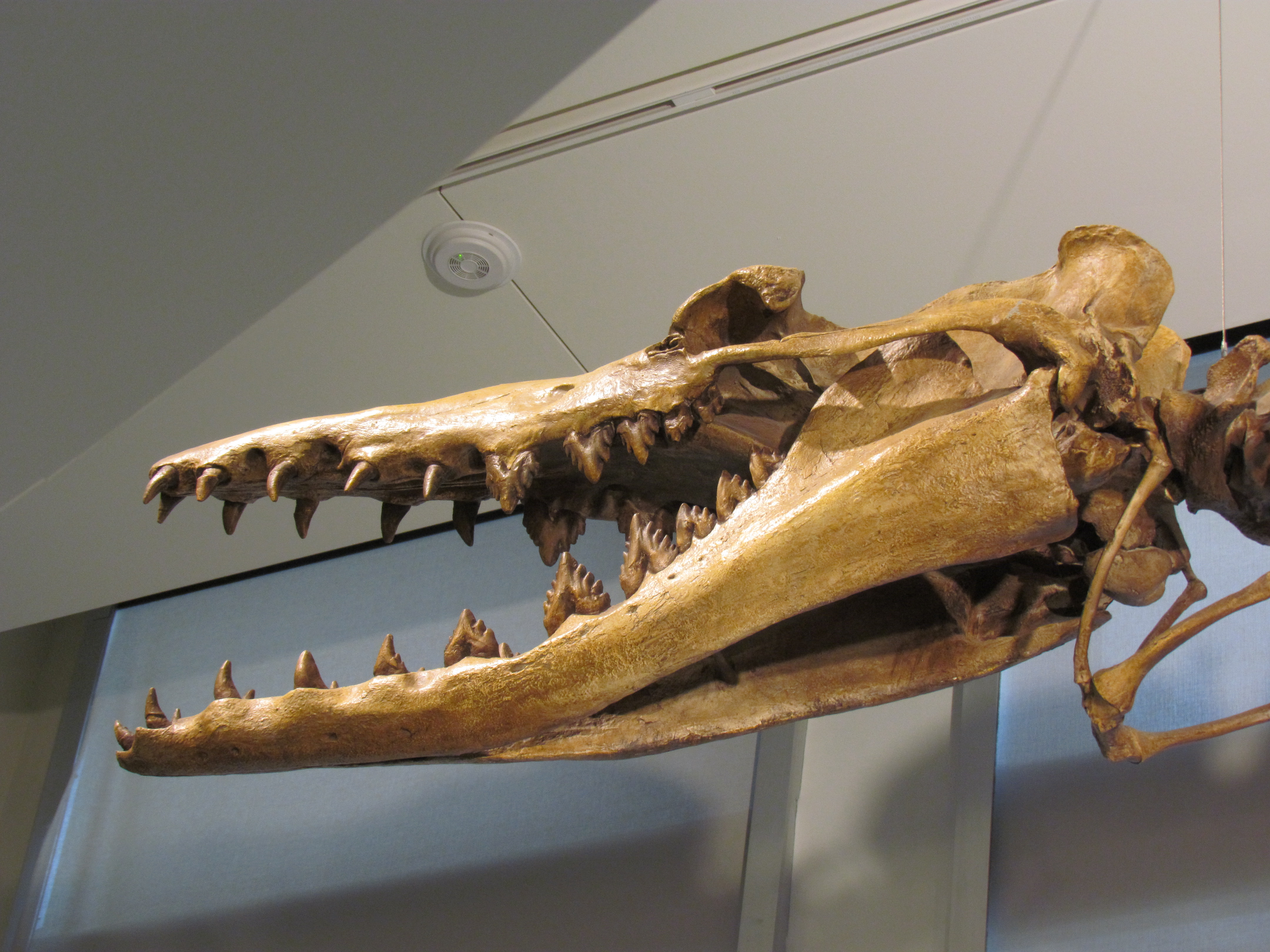 Head of Dorudon at Canadian Museum of Nature, Ottawa, Ontario